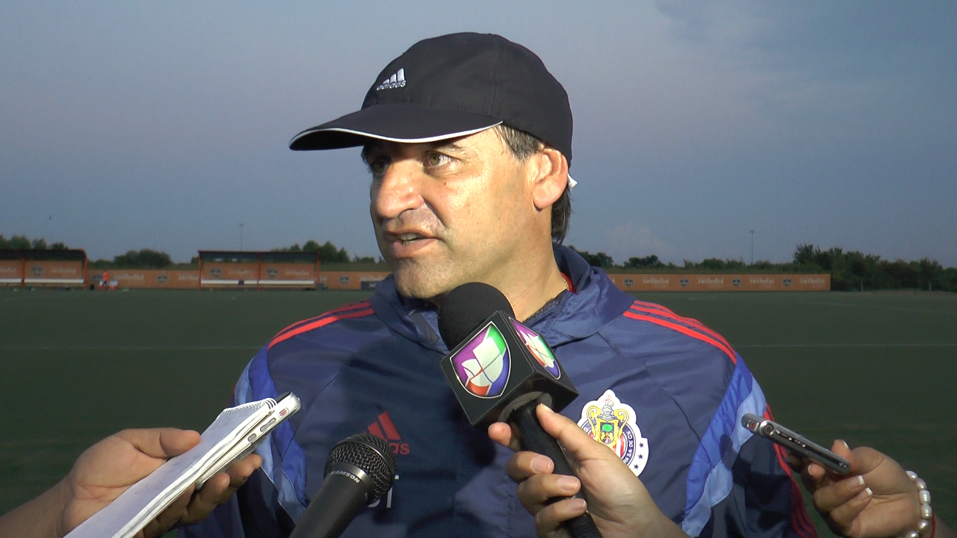 Carlos Bustos, head coach of Club Deportivo Guadalajara, speaks to a round of media members in Houston after his team’s evening practice at Houston Sports Park on Monday, August 4, 2014. Guadalajara was training ahead of a friendly with A.C. Milan at NRG Stadium on Wednesday and their return to Liga MX action on Saturday against C.F. Pachuca.